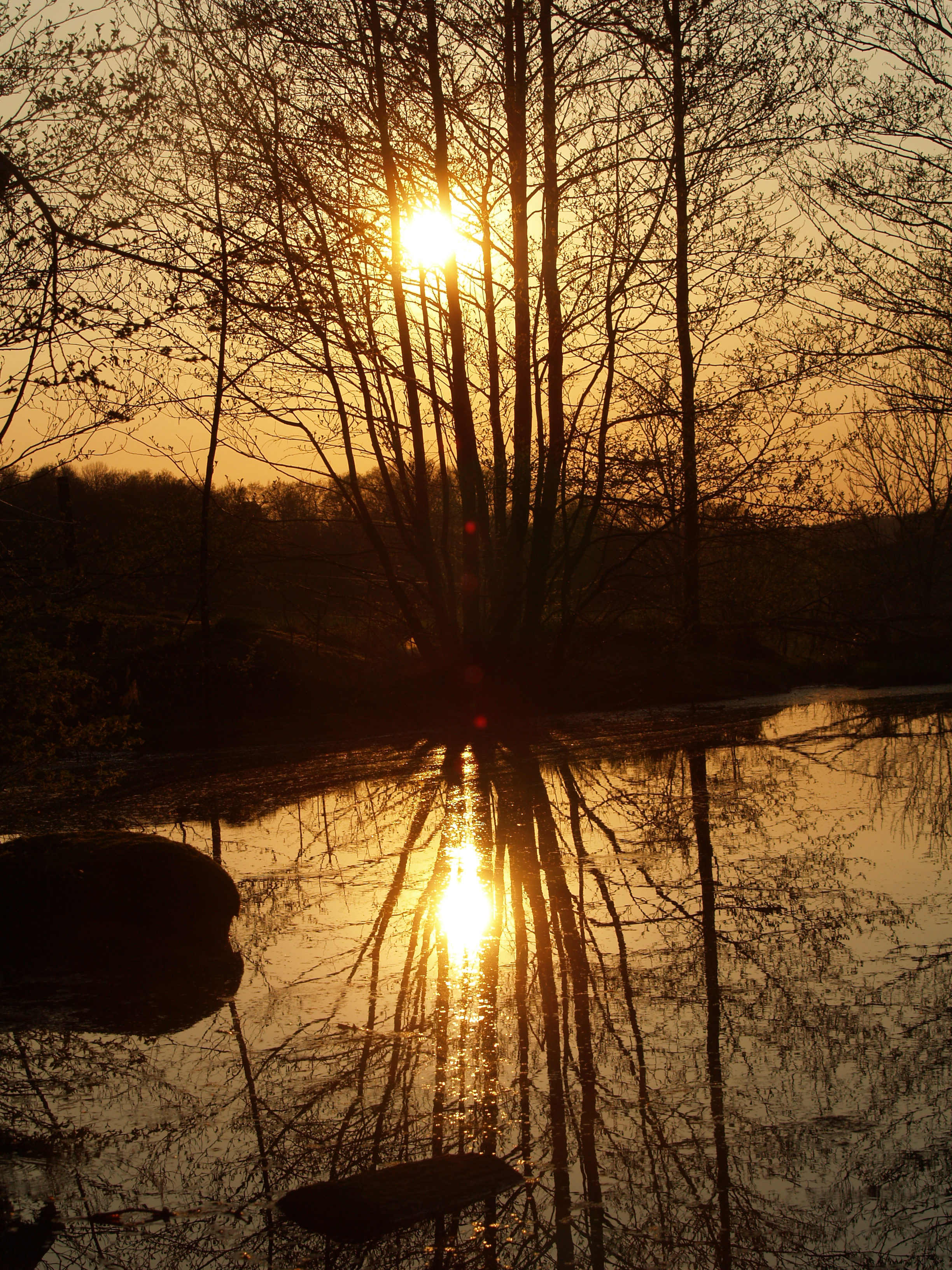 Sunset over fire pond in Askesby Högen, Göteborg municipality, Sweden. The pond was dug by hand by the village farmers in the beginning of the 20th century.